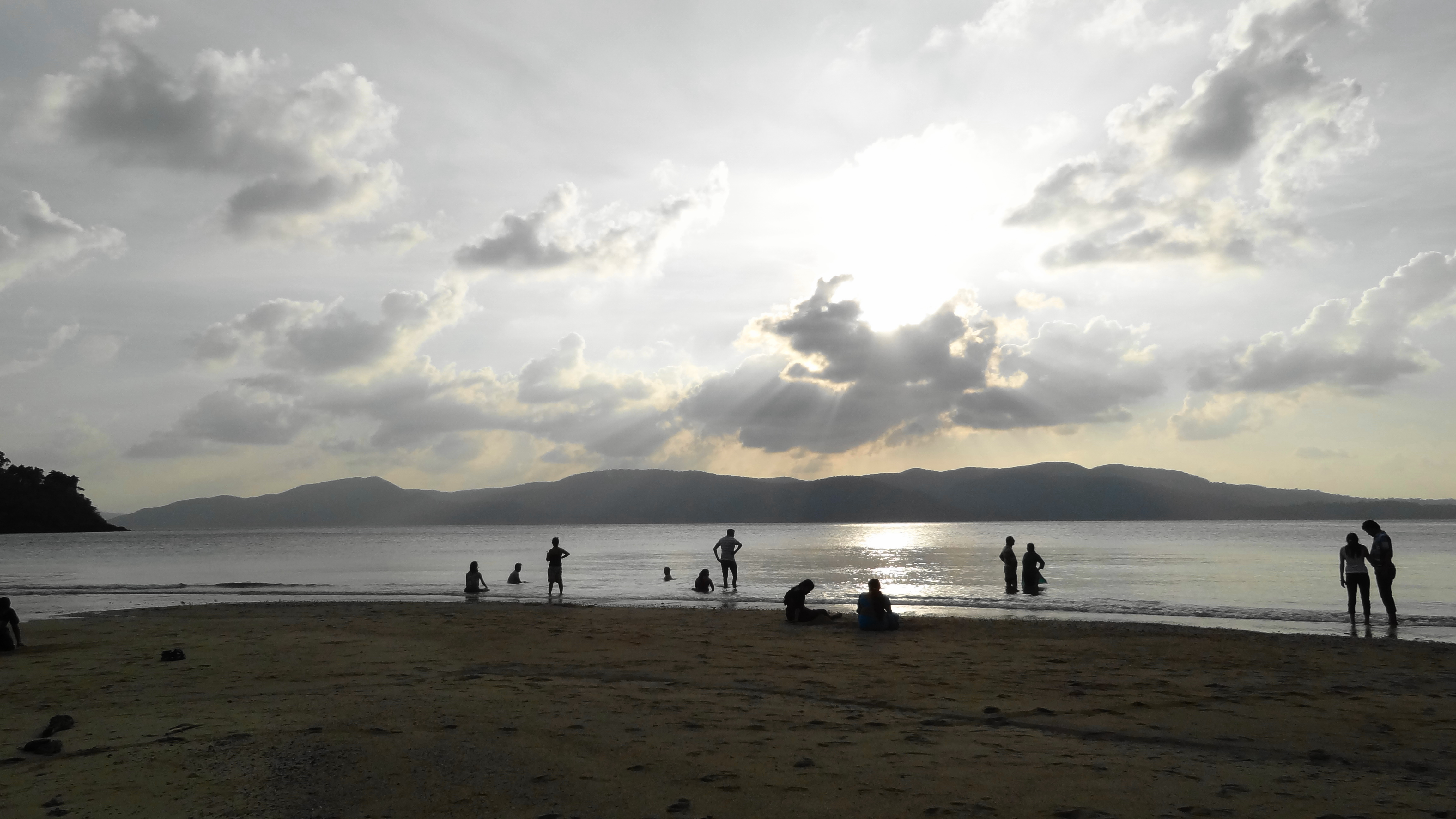 Sunset Point, Andaman